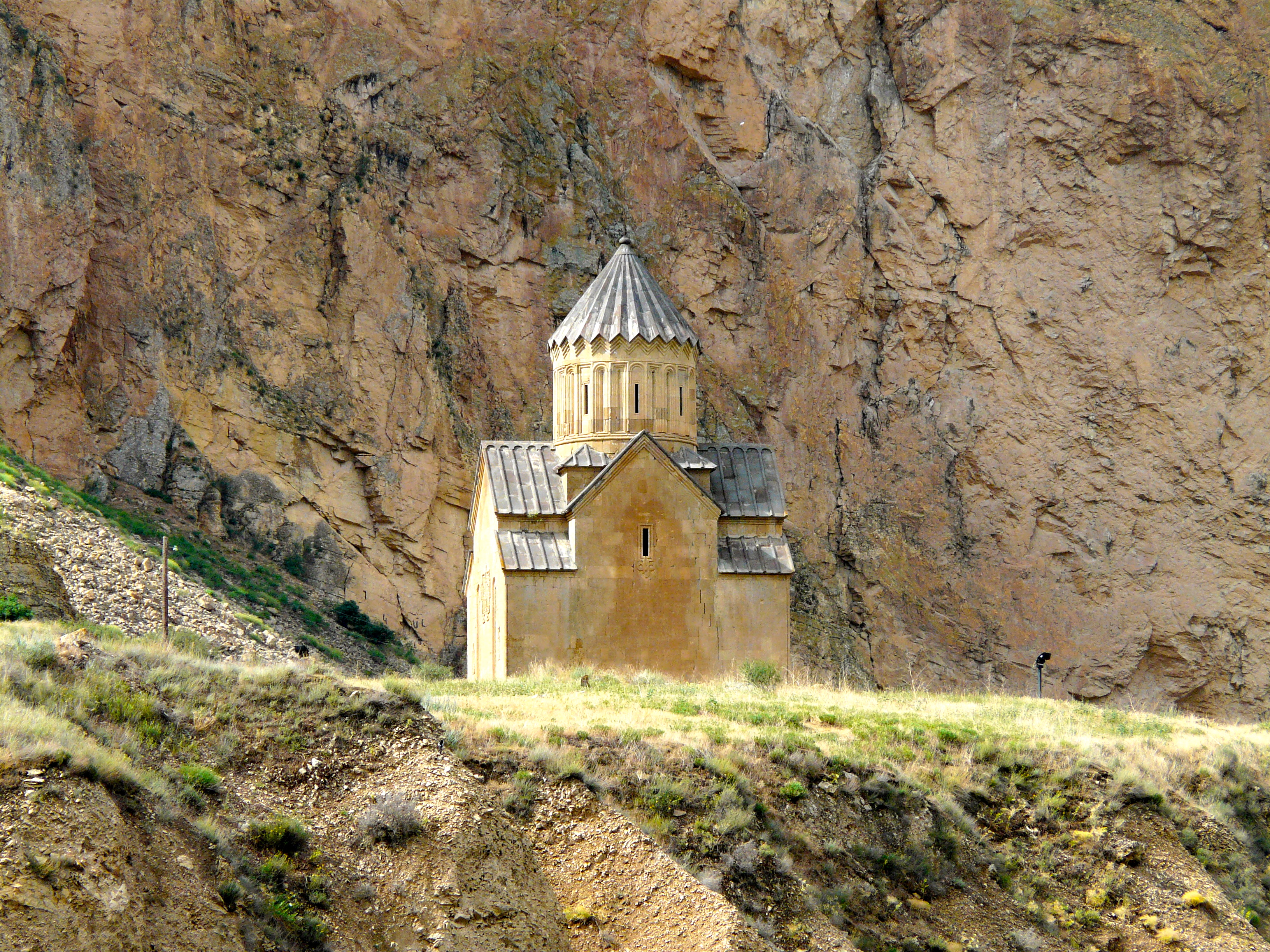 Areni church (built 1321), Vayots Dzor, Armenia